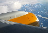 Icelandair window view enroute to JFK